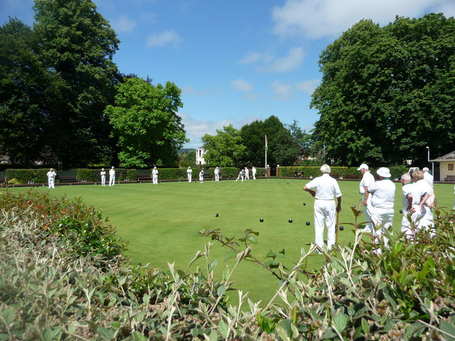 Tiverton : West End Bowling Club Lawn bowls being played here at West End Bowling Club in Westexe Park.